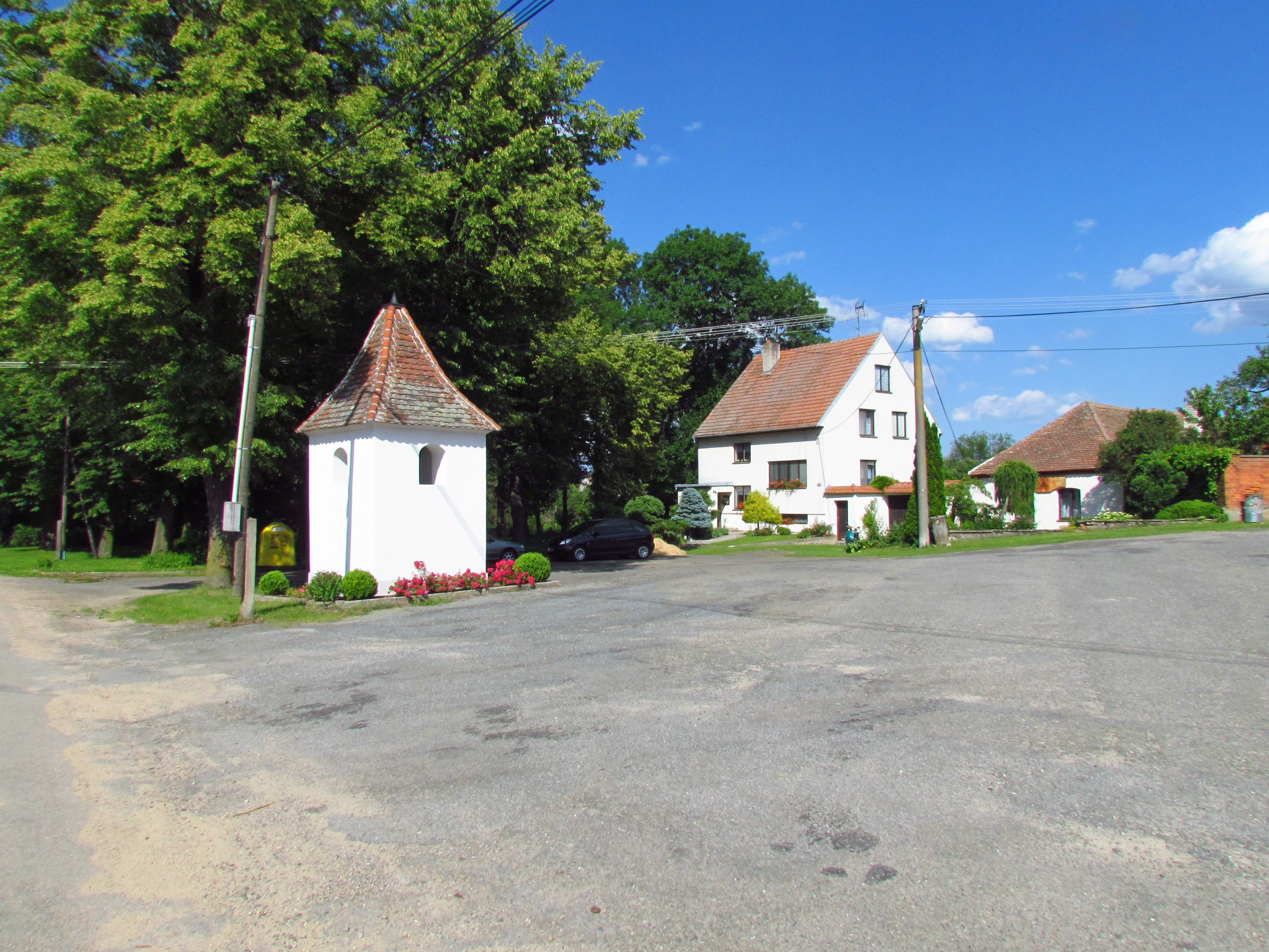 Center of Udeřice, Třebíč District.